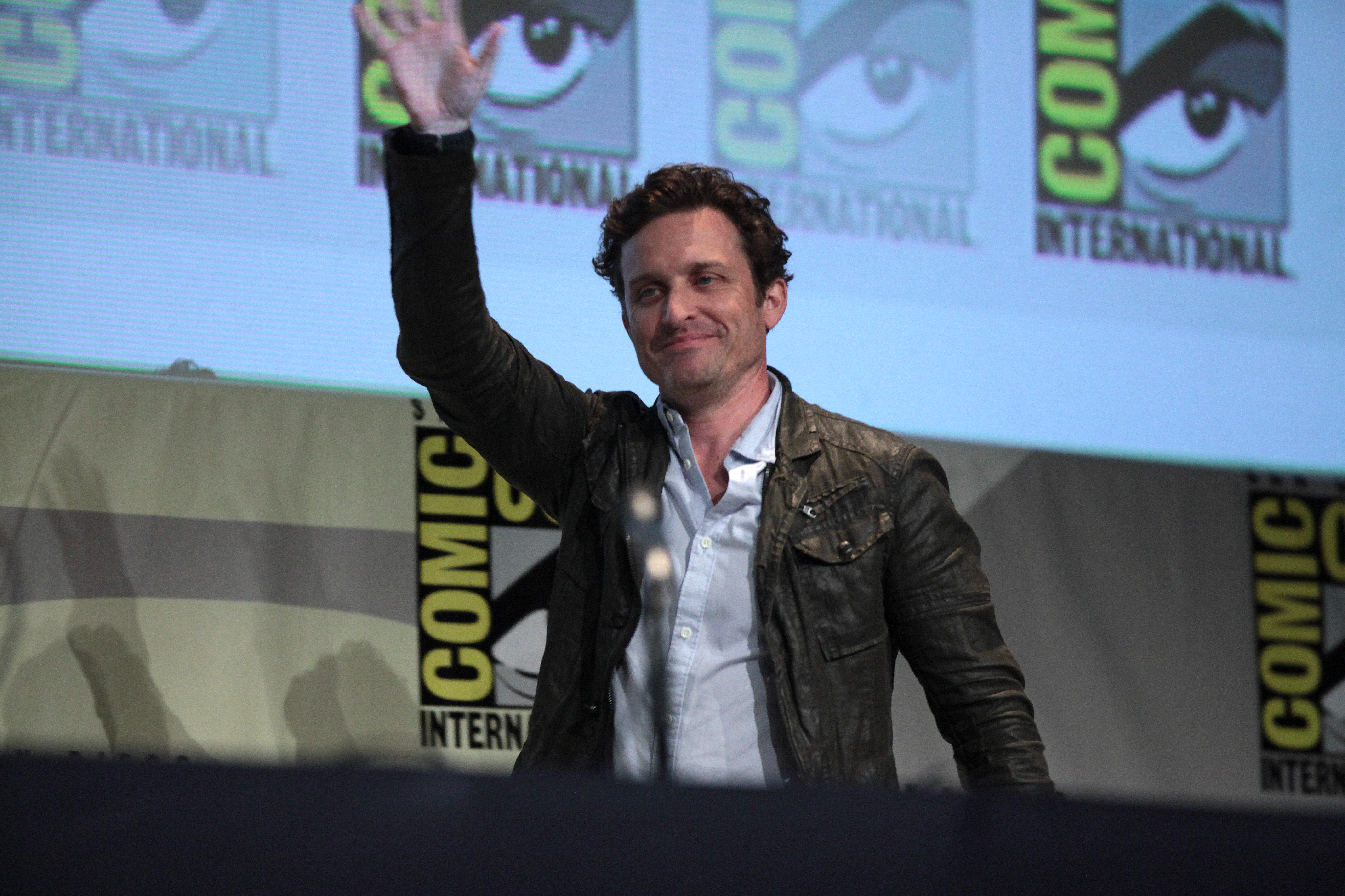 Rob Benedict speaking at the 2015 San Diego Comic Con International, for "Supernatural", at the San Diego Convention Center in San Diego, California.